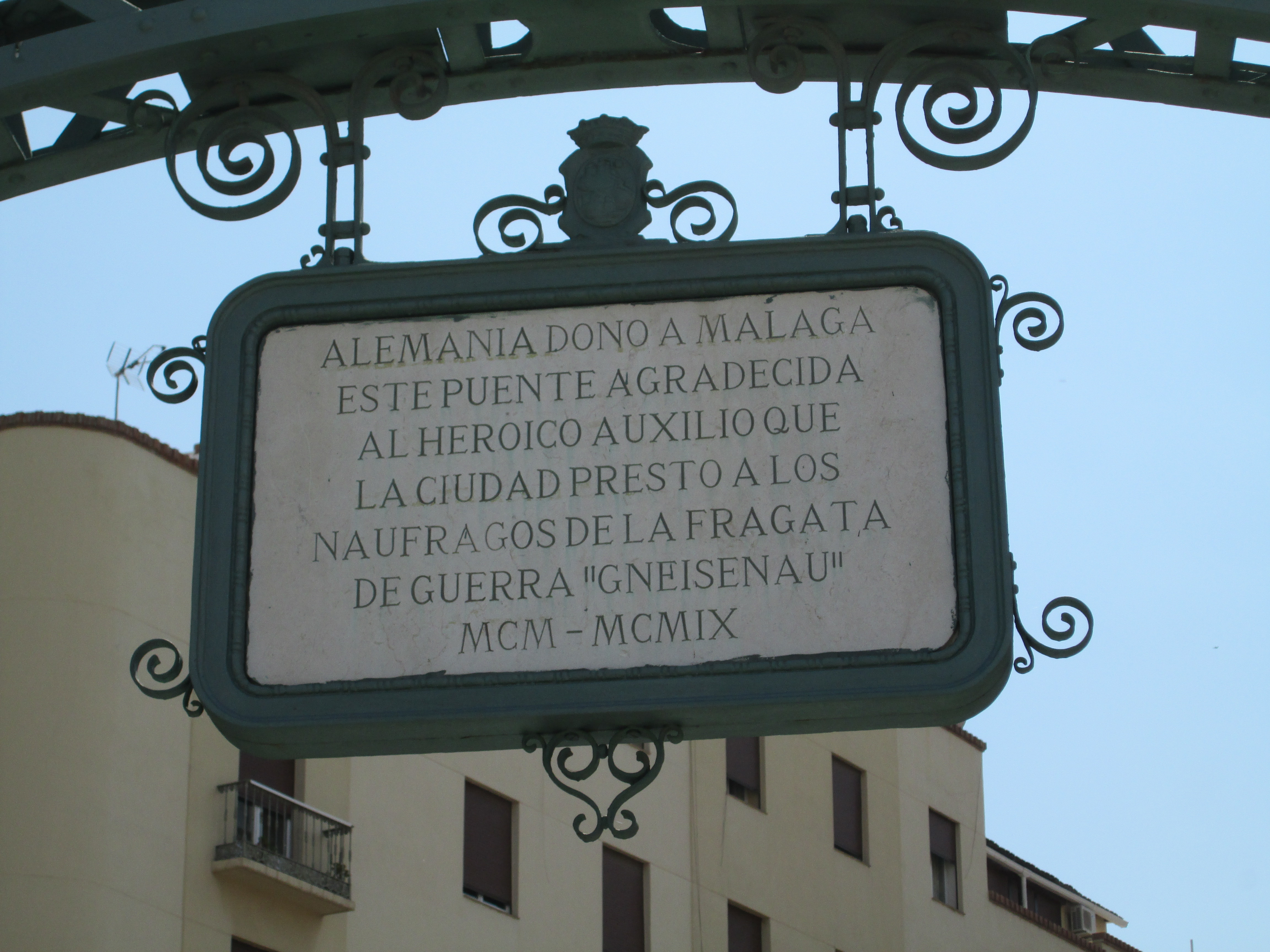 Málaga